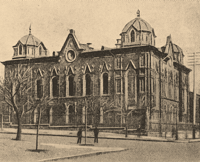 Illustration from Brockhaus and Efron Jewish Encyclopedia (1906—1913)